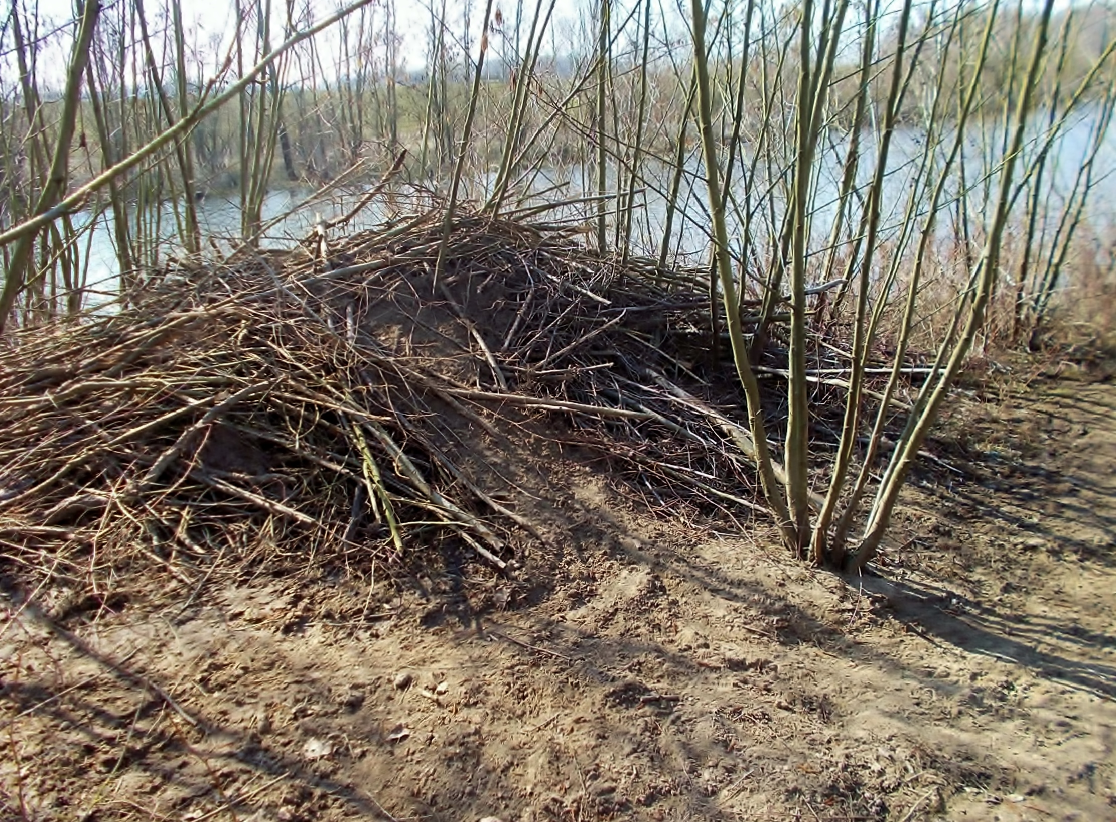 Castor fiber lodge near the river IJssel in the Netherlands